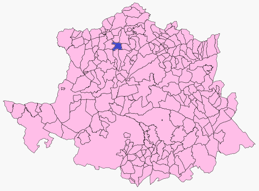 Pozuelo de Zarzón